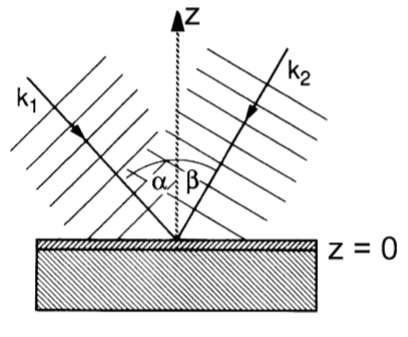 change the characteristics of the beam after reflect from the grating